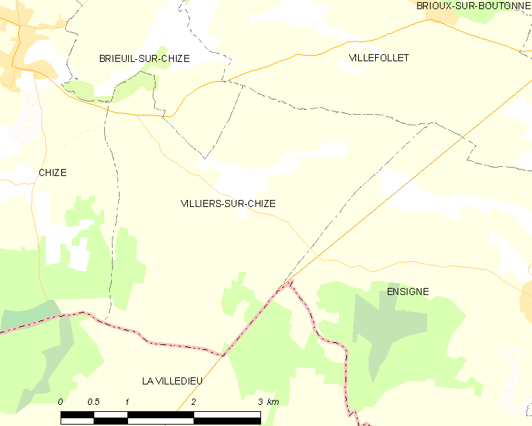 Map of French municipality Villiers-sur-Chizé